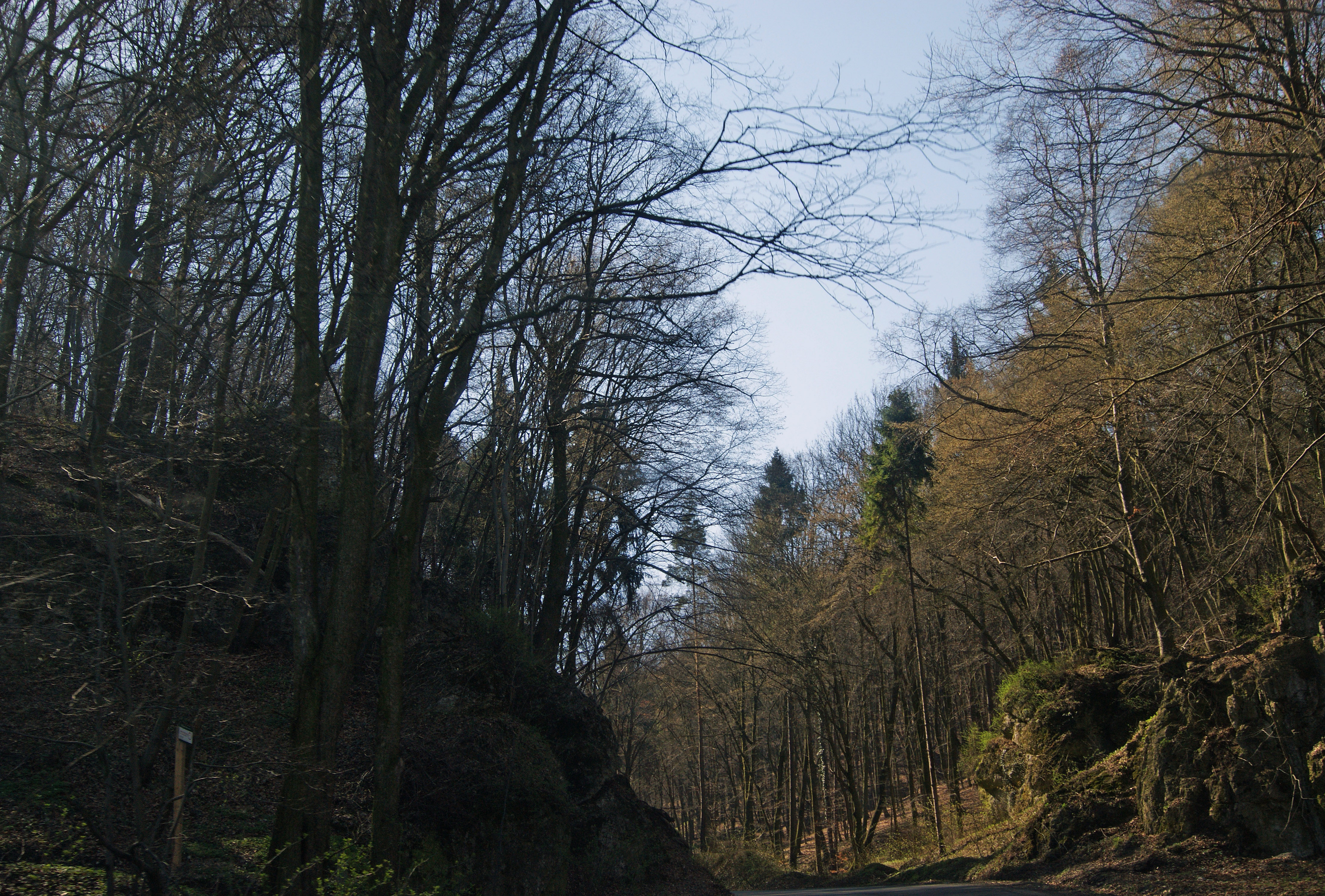 Kochanów Valley, Kochanów village, Krakow County, Lesser Poland Voivodeship, Poland